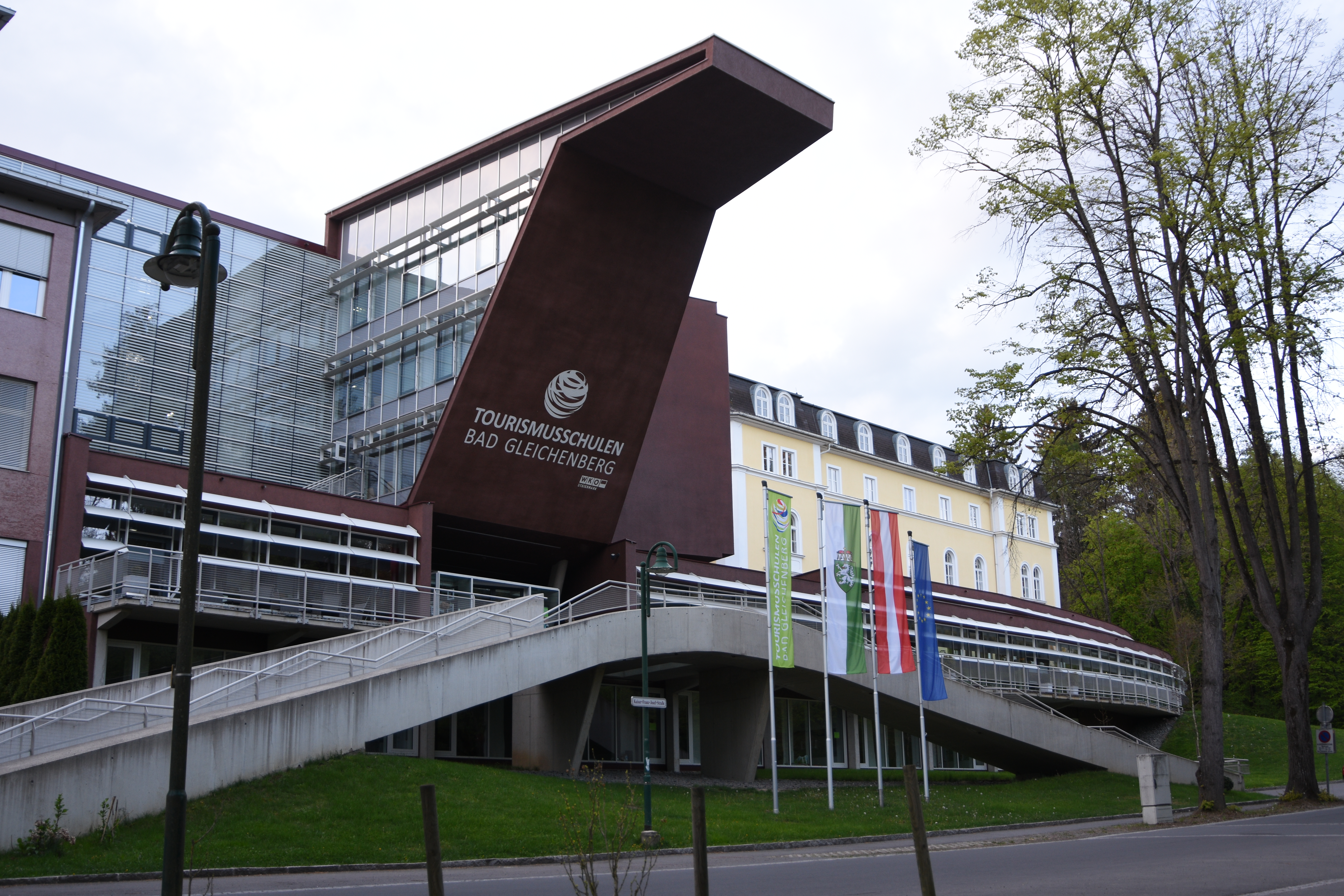 Tourismusschulen Bad Gleichenberg